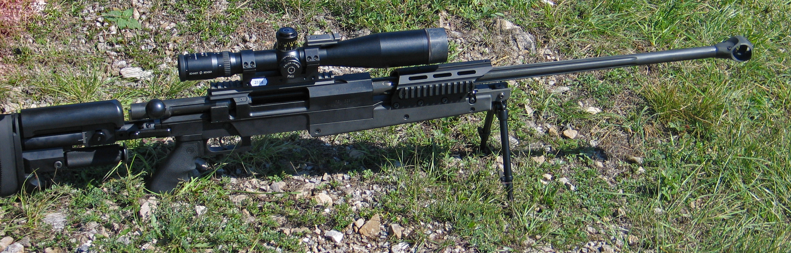 PGM 338 also known as PGM Mini Hécate .338, is a 0.338 Lapuma Magnum bolt-action sniper rifle